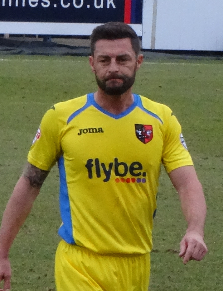 Jamie McAllister playing for Exeter City against York City at Bootham Crescent, York on 28 February 2015